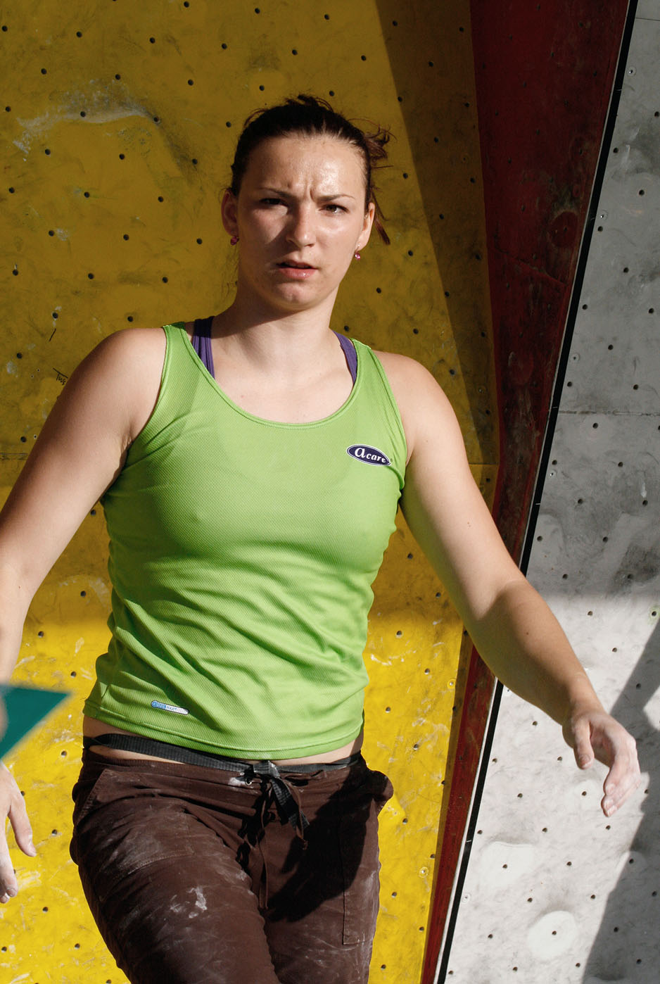 Silvie Rajfová during qualifications at the IFSC Boulder Worldcup Vienna 2010.